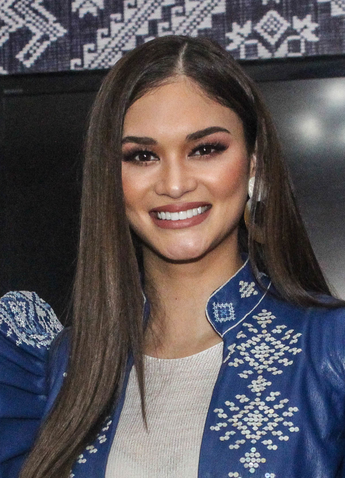 The National Arts Month 2019 Arts Ambassadors, Mr. Ian Veneracion, Miss Universe 2015 Pia Wurtzbach, and Ms. KZ Tandingan.